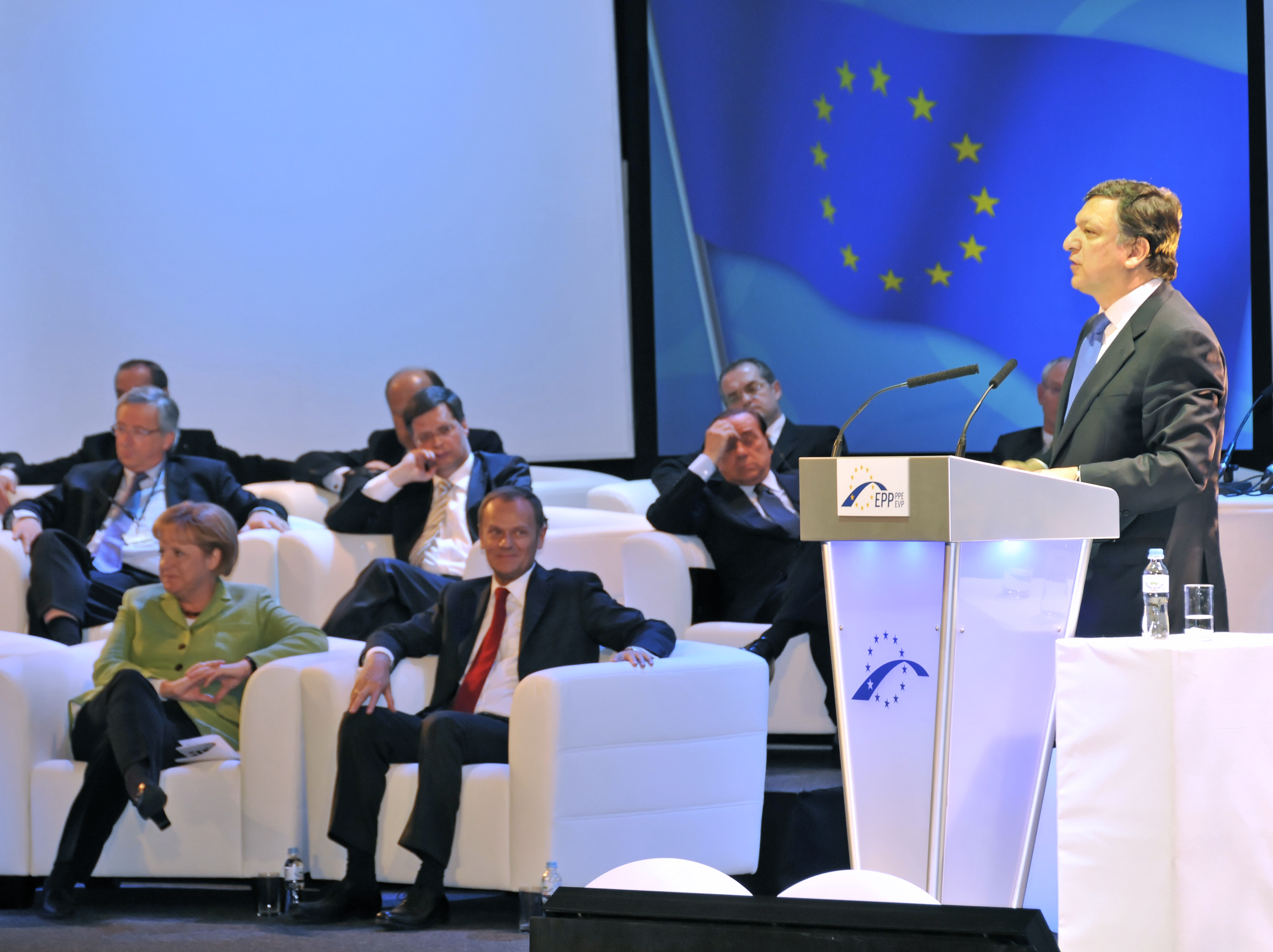 EPP Congress in Warsaw